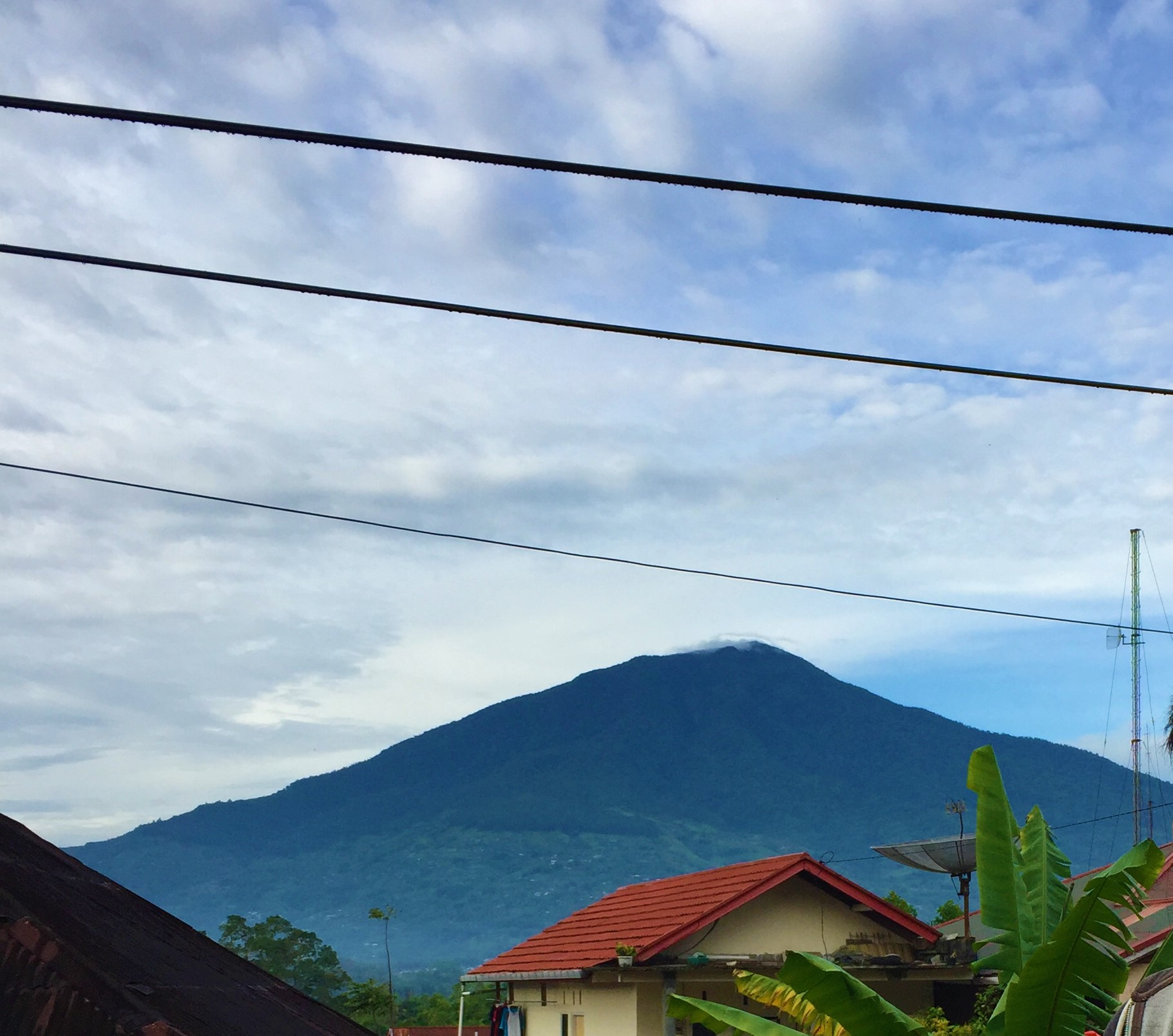 ount Singgalang is mount located in West Sumatera this Viewed by Bukittinggi City, There are 2 lakes at the summit, named Dewi (Goddess) and Kumbang (Beetle).